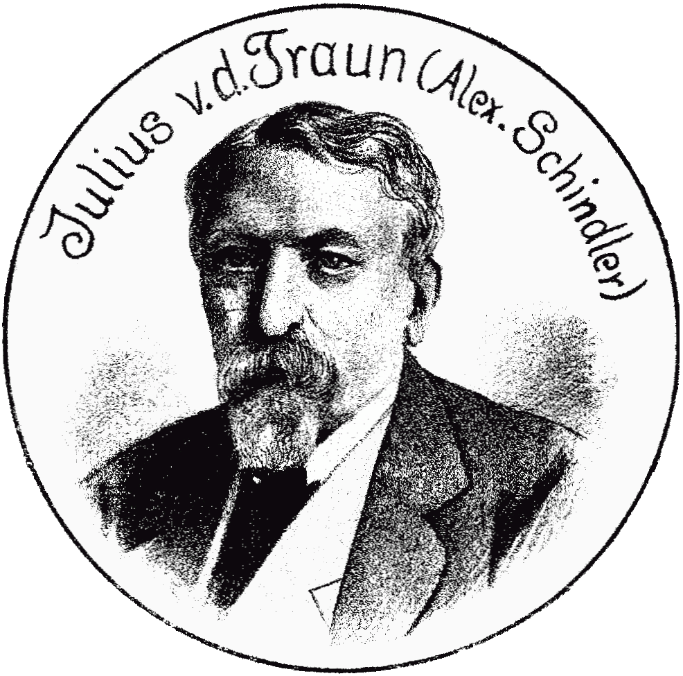 Alexander Julius Schindler (Pseudonym: Julius von der Traun; 1818–1885) Austrian writer, politician and jurist